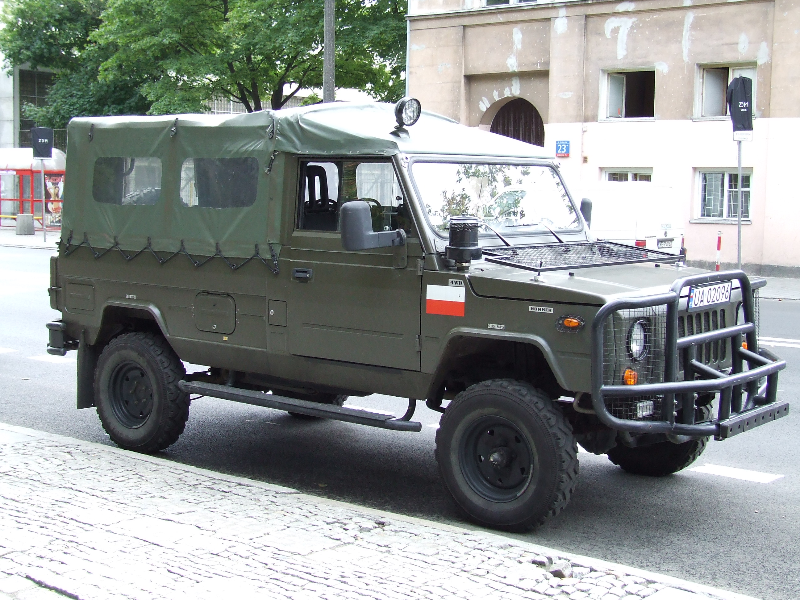 Polish military car - Honker, picture taken in centre of Warsaw during 15th August's Military Parade